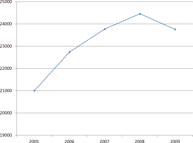 Graph attendance of the museum of Perigord (Perigueux, France) between 2005 and 2009.